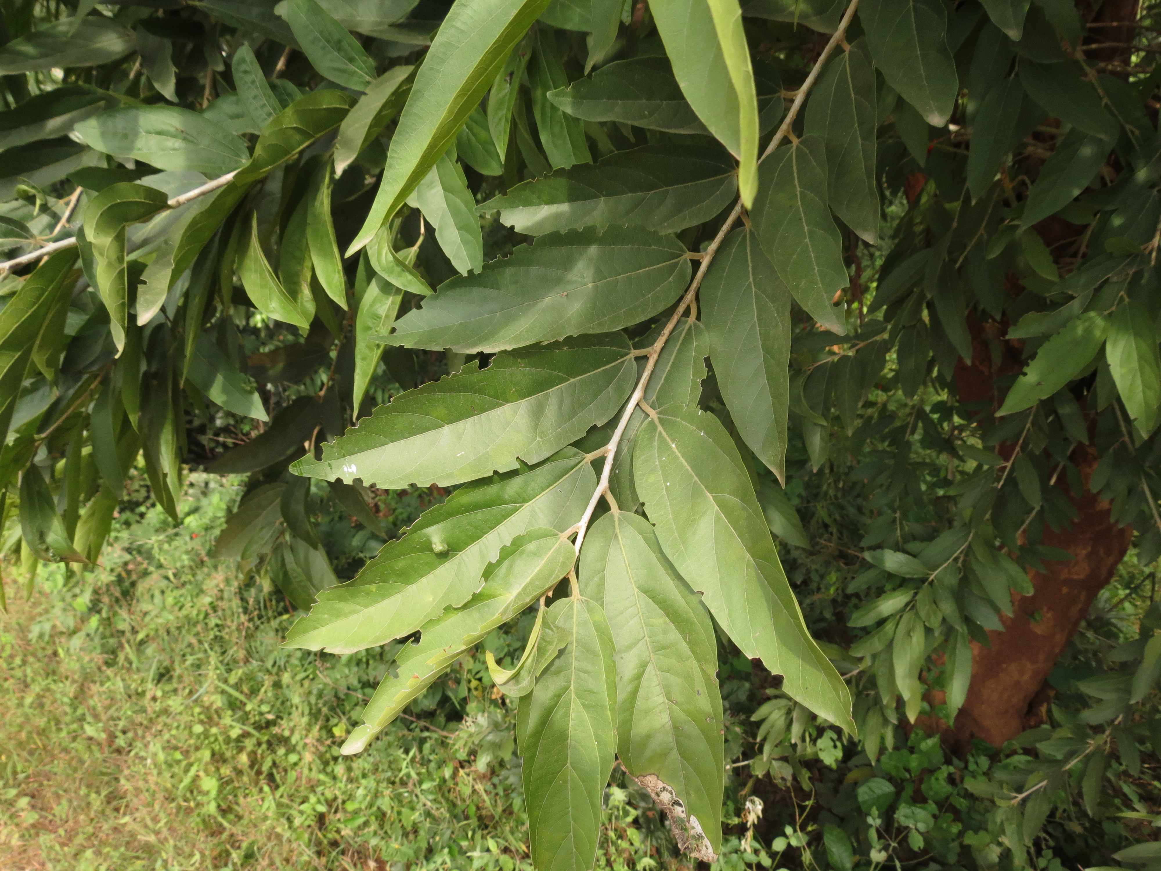 Sage Leaved Alangium (Alangium salviifolium) details